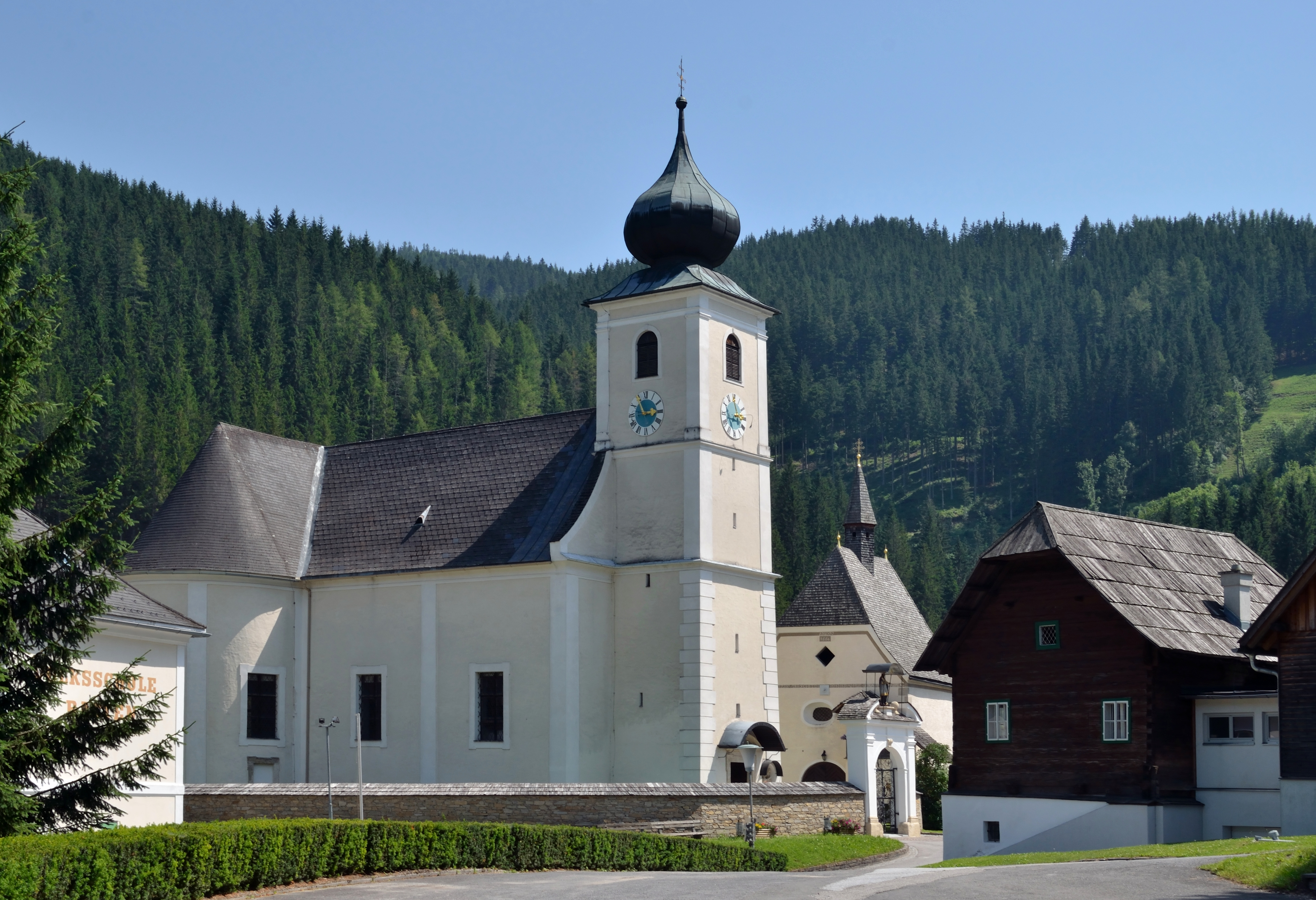 Parish church Saint Nicholas and churchyard in Ratten, Steiermark, are protected as a cultural heritage monument. Behind Rosenkranzkapelle and to the right the Pfarrheim (church hall).